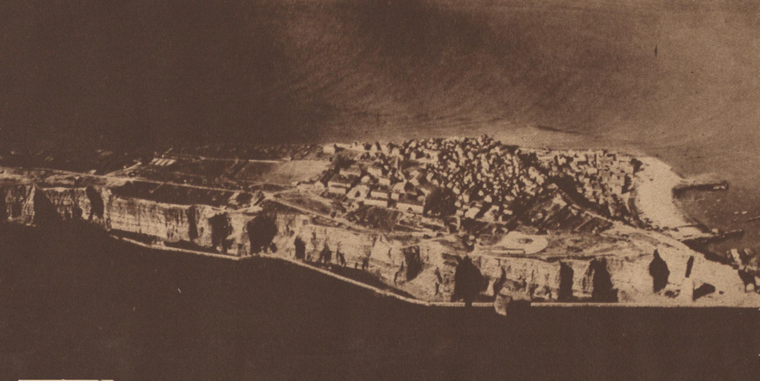 Heligoland in 1919 (Digitally altered slightly to fix the corners of the image.)